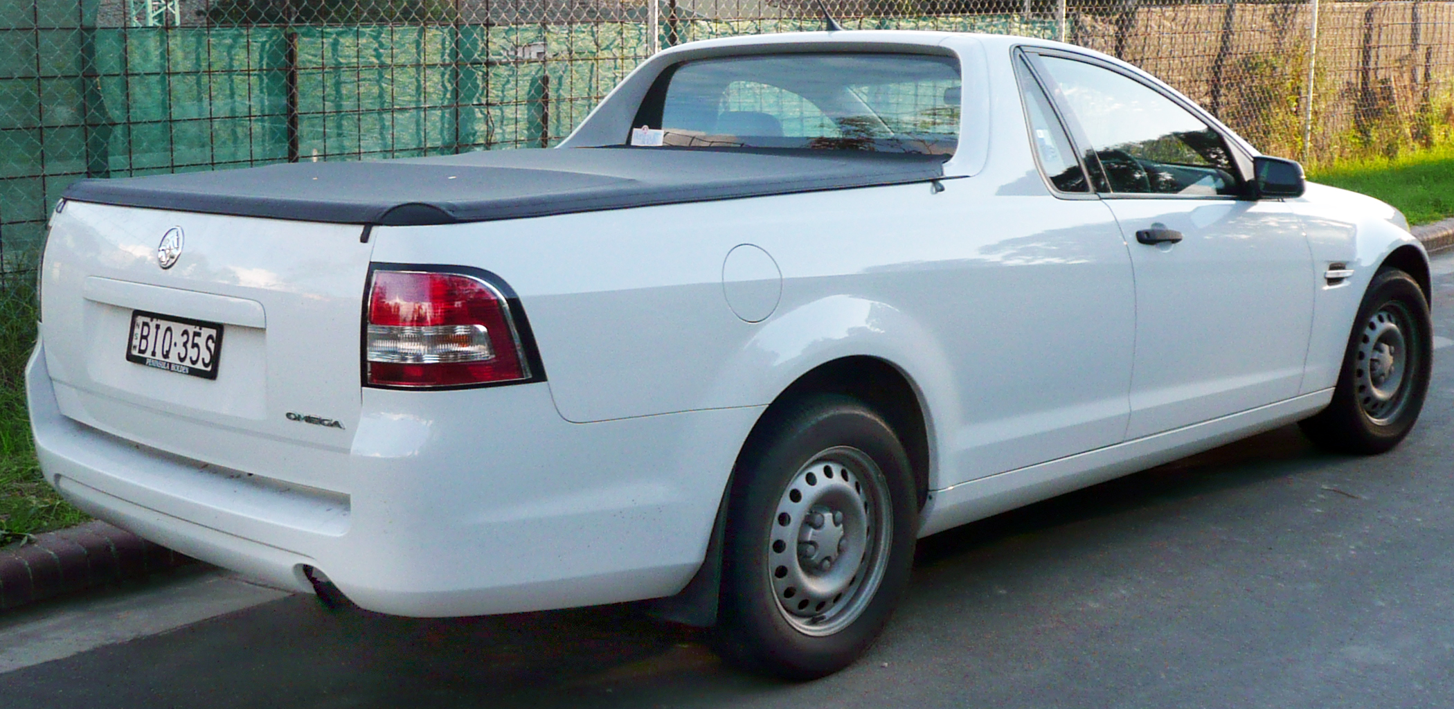 2007 Holden Ute (VE MY08.5) Omega utility. Photographed in Sutherland, New South Wales, Australia.